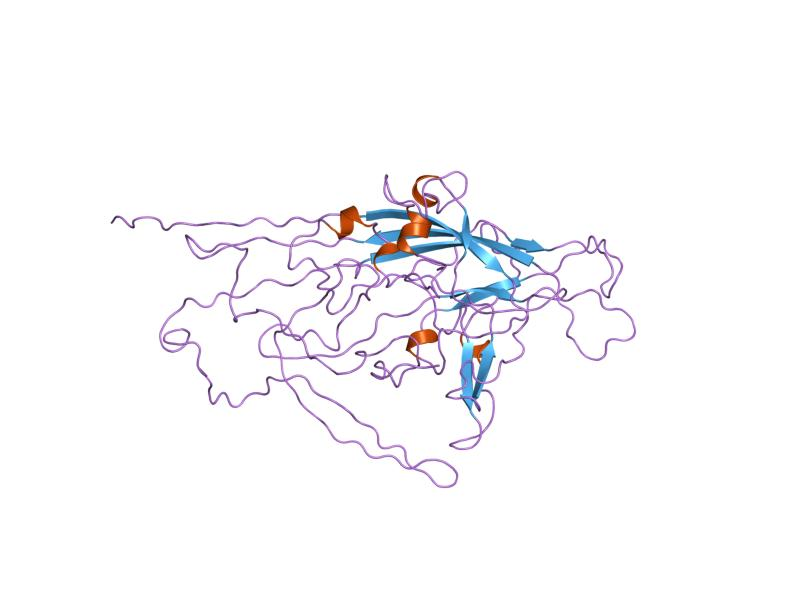 Cartoon representation of the molecular structure of protein registered with 1dnv code.